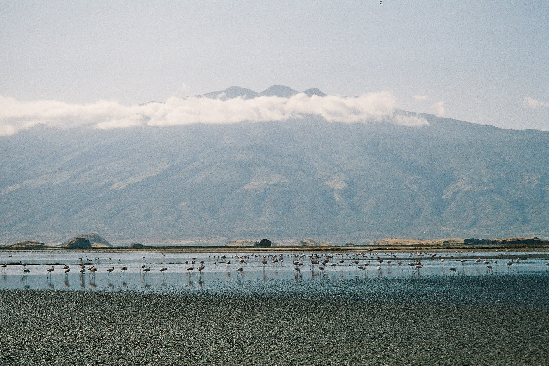 Mount Gelai seen from the southern tip of Lake Natron, Northern Tanzania